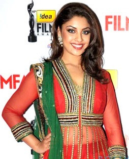 Richa Gangopadhyay at 60th Filmfare Awards South held on July 13, 2013.